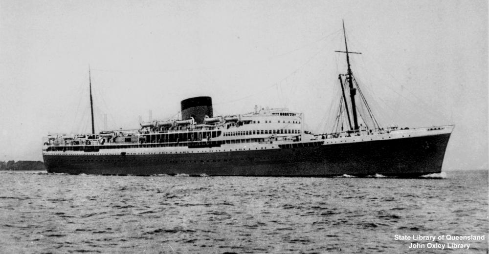 Athlone Castle (ship) 25567 tons gross, 15345 tons nett. Built 1936 by Harland Wolff Ltd., Belfast. Code letter G.Y.T.K. Carried many thousands of troops during World War II, which she survived. (Description supplied with photograph).